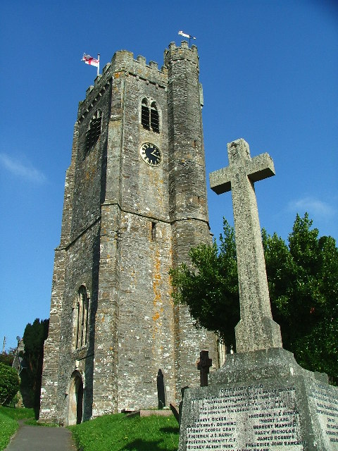 St. Mary's Church, Brixton. The village church and the memorial to the two world wars.